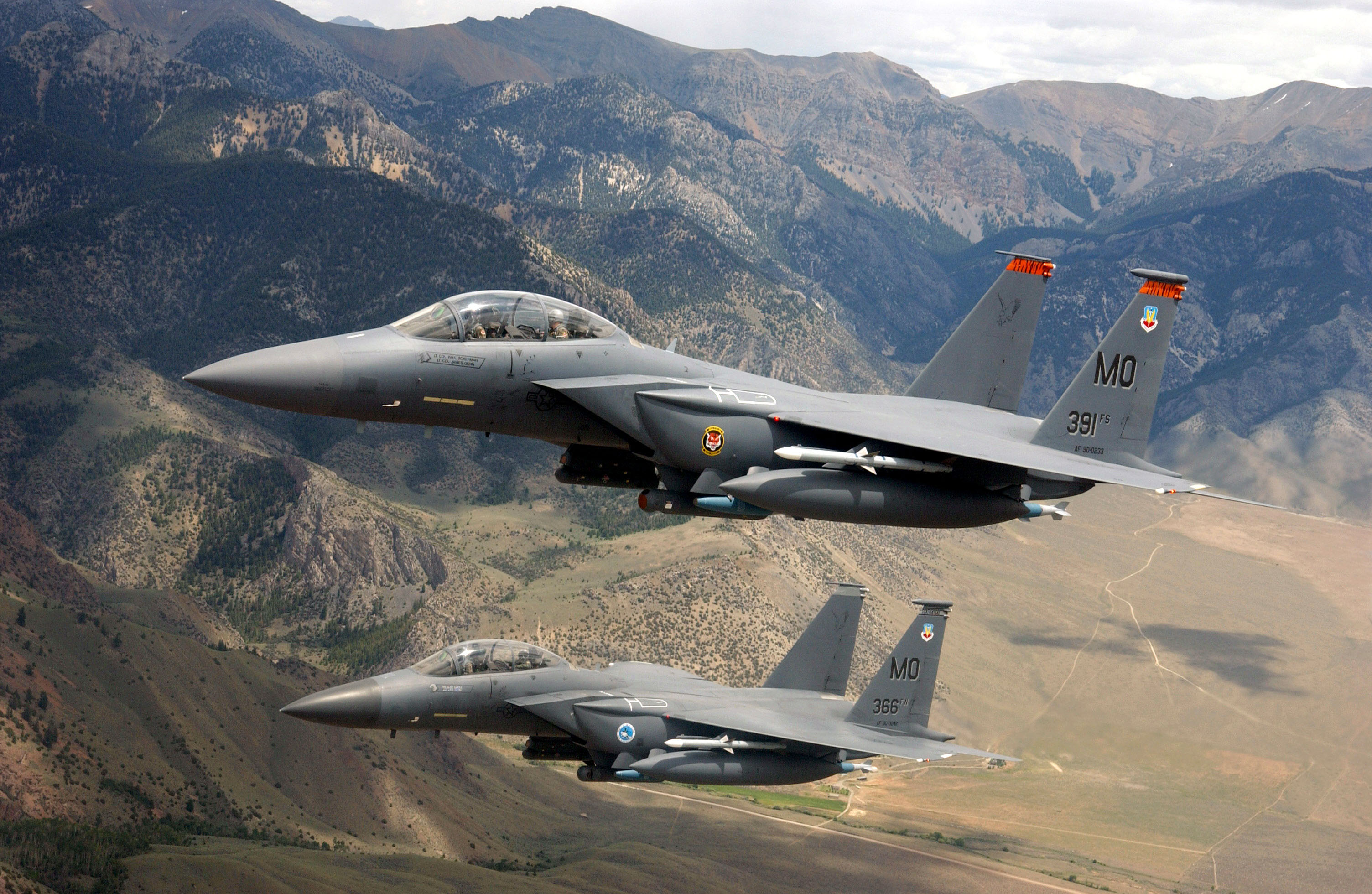 MOUNTAIN HOME AIR FORCE BASE, Idaho -- Two F-15E Strike Eagles perform a low-level training mission over the Sawtooth Mountain Range.